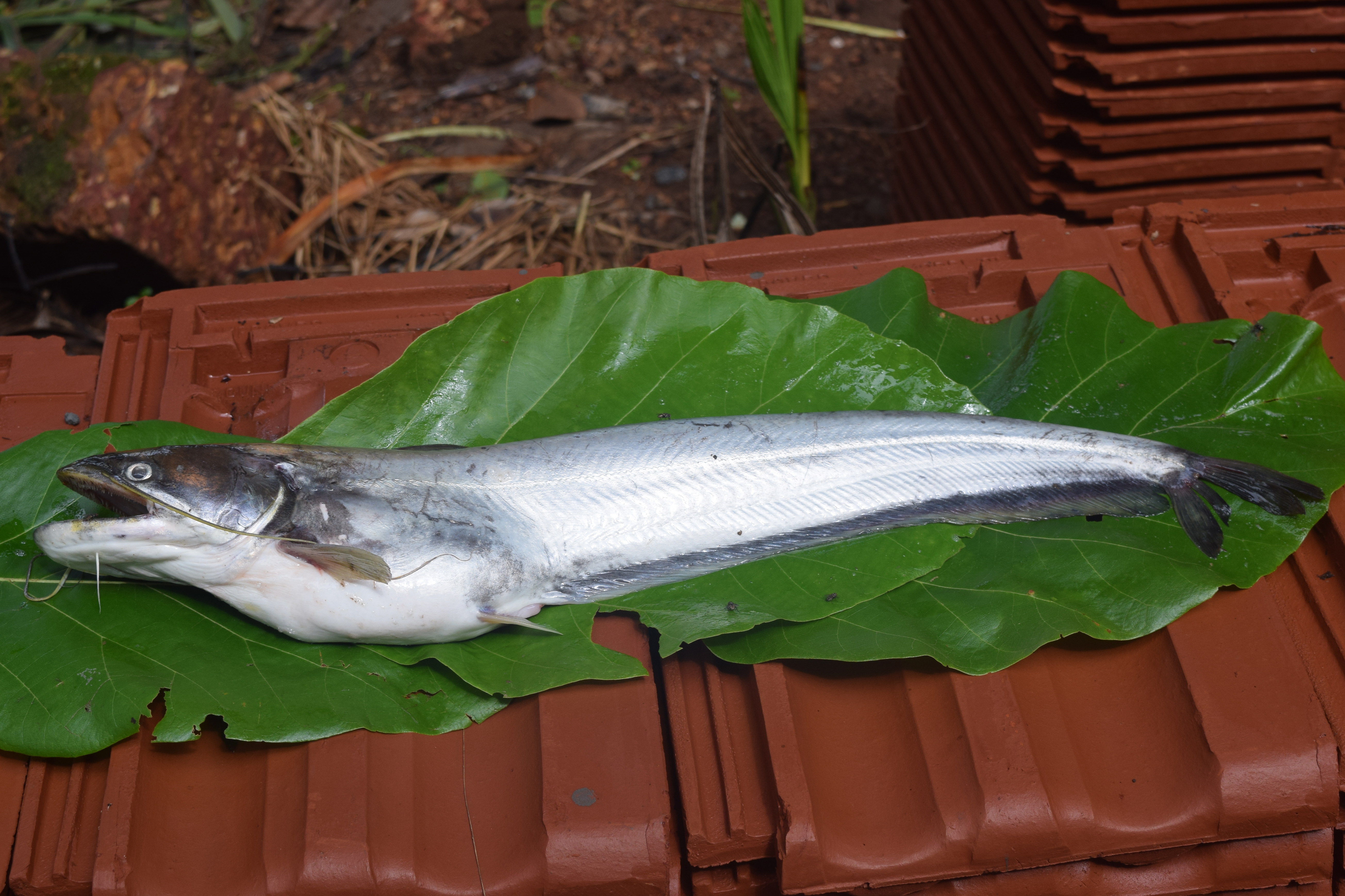 Wallago attu